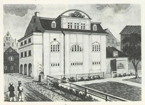 Temple of the Neuer Israelitischer Tempelverein in the courtyard at the corner of Erste Brunnenstrasse and Alter Steinweg in Hamburg, built in 1818.